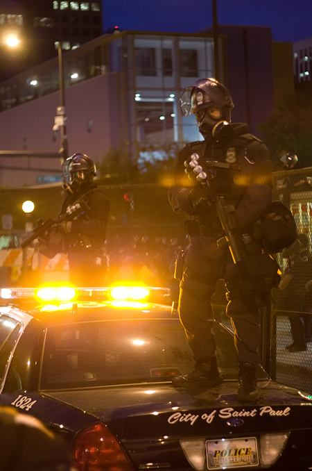 Riot police in Saint Paul, Minnesota, w:2008 Republican National Convention